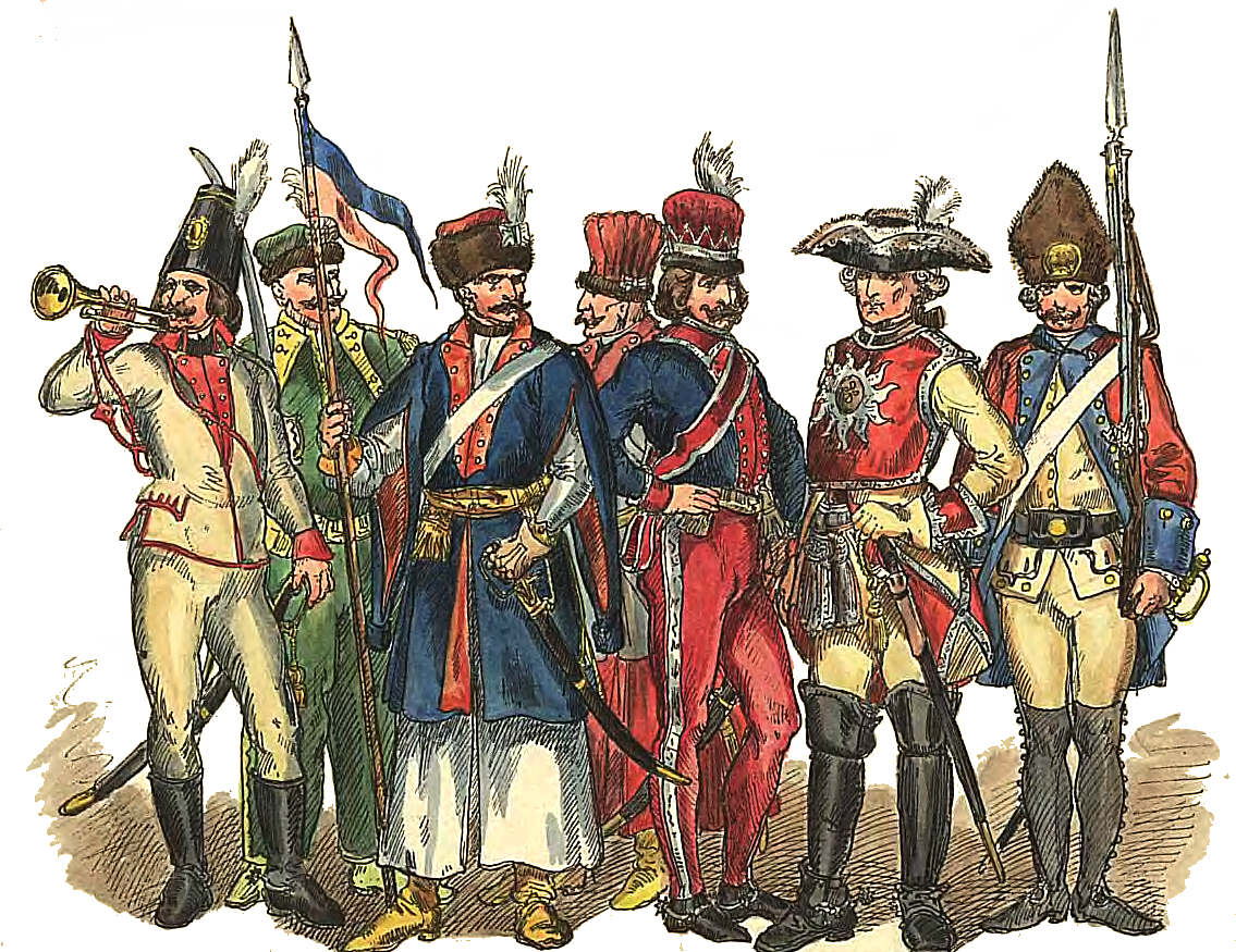 Polish soldiers 1697-1795